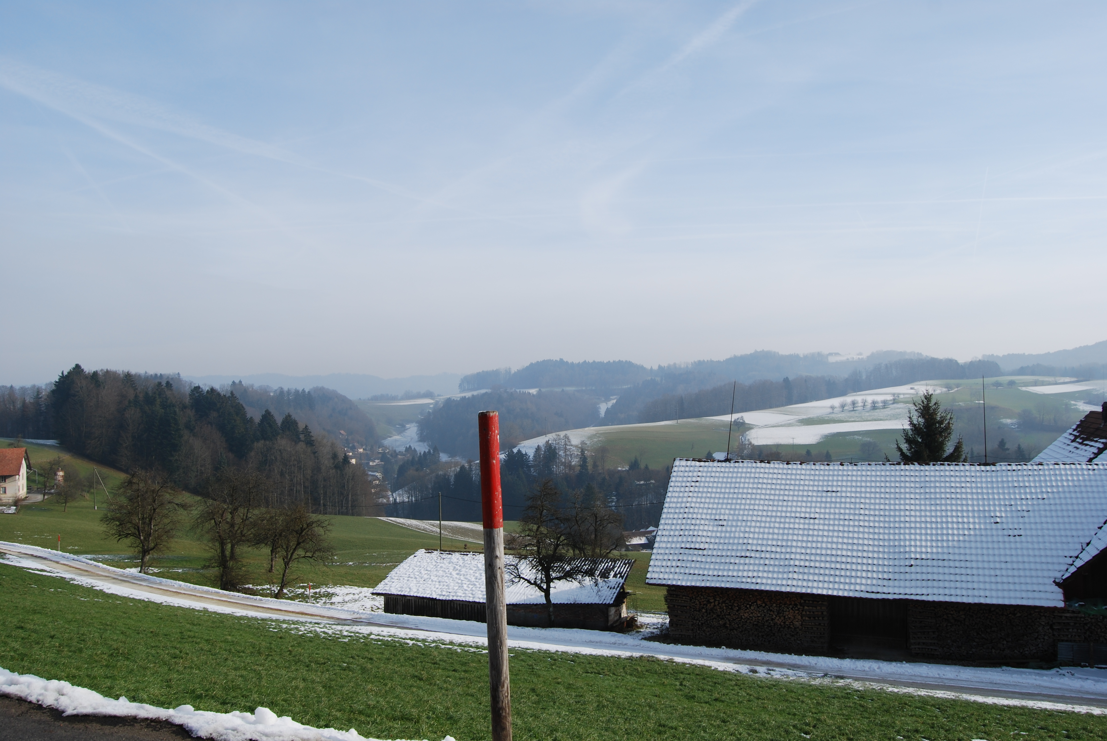 View from Bänkel Pass to Schlossrued, canton of Aargau, SwitzerlandEsperanto: Vido de Bänkel-Pasejo al Schlossrued, Kantono Argovio, Svislando